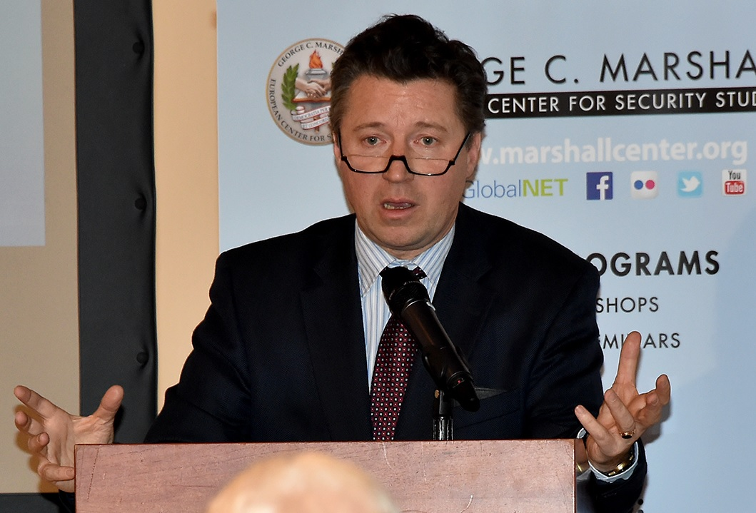 Dr. Géza Andreas von Geyr, director general for Security and Defense Policy with the German Federal Ministry of Defense, talked with 61 participants from 26 partner nations during the George C. Marshall European Center for Security Studies’ European Security Seminar – East Jan. 23 at the Pete Burke Community Center on Artillery Kaserne in Garmisch-Partenkirchen, Germany.